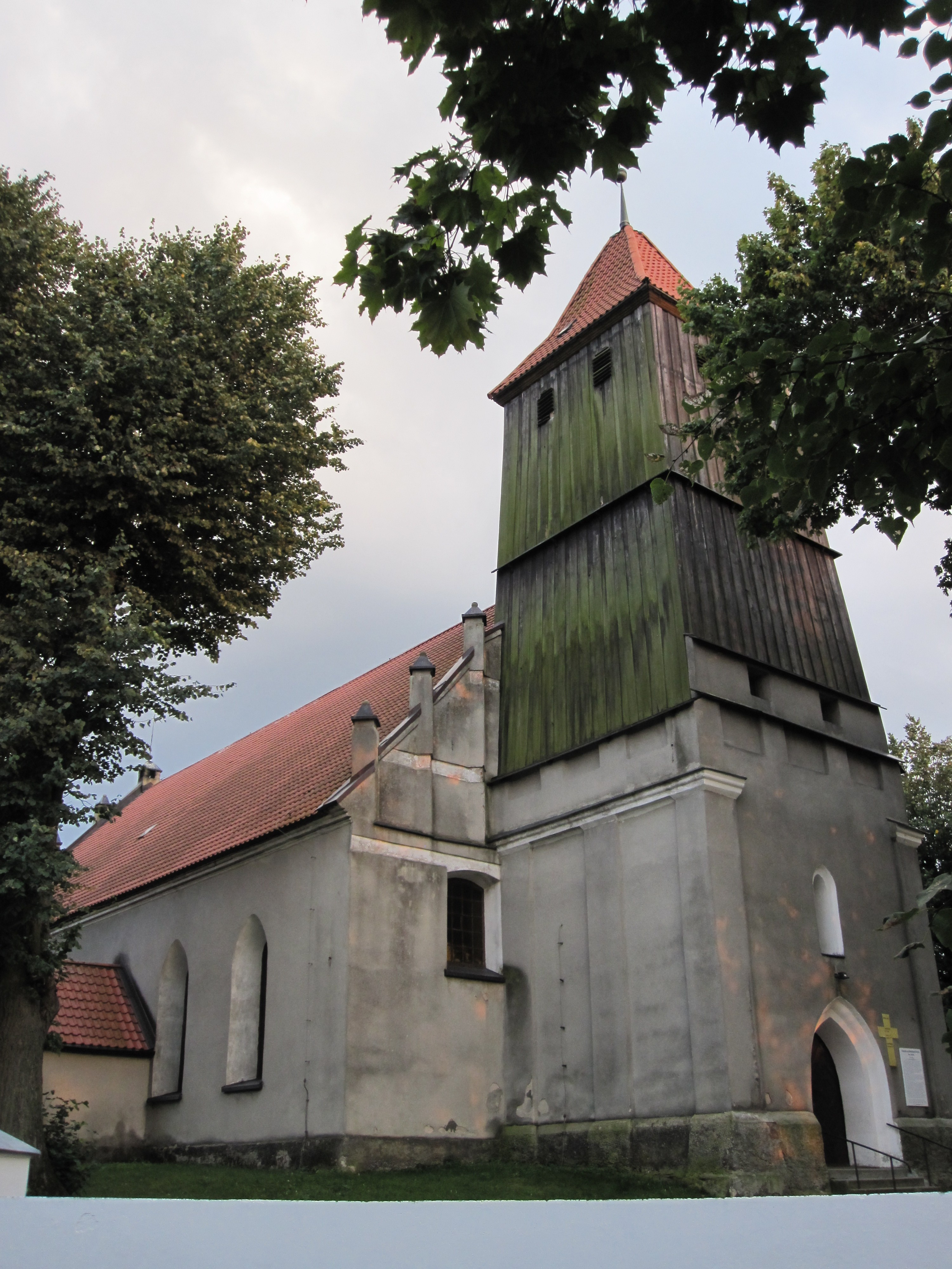 Saint Joseph church in Nawiady, Poland